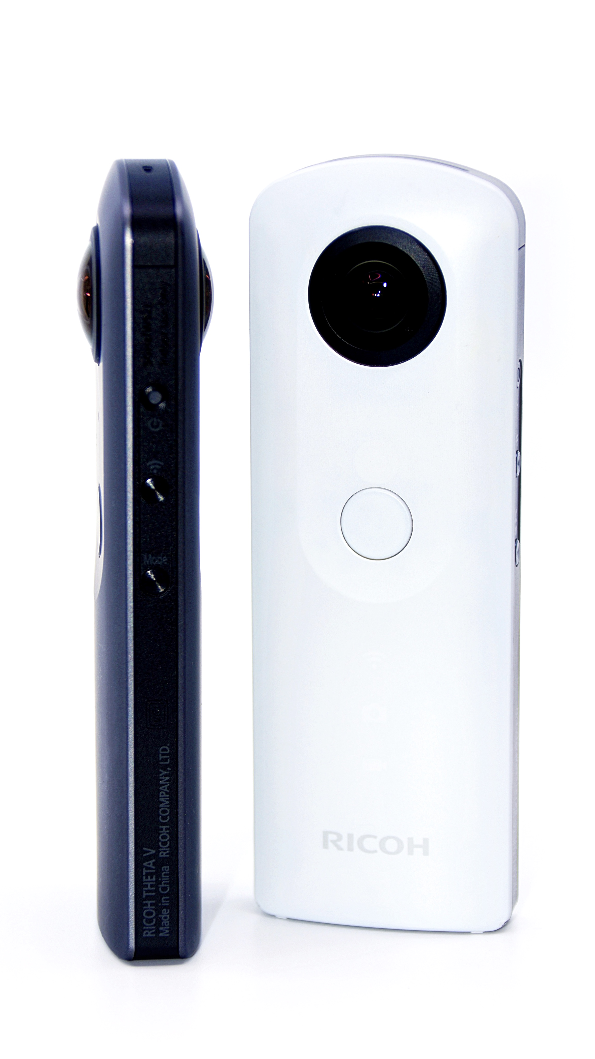 The omnidirectional cameras Ricoh Theta V (left) and Ricoh Theta SC (right). Omnidirectional cameras can shoot 360° x 180° panoramic photos or videos.